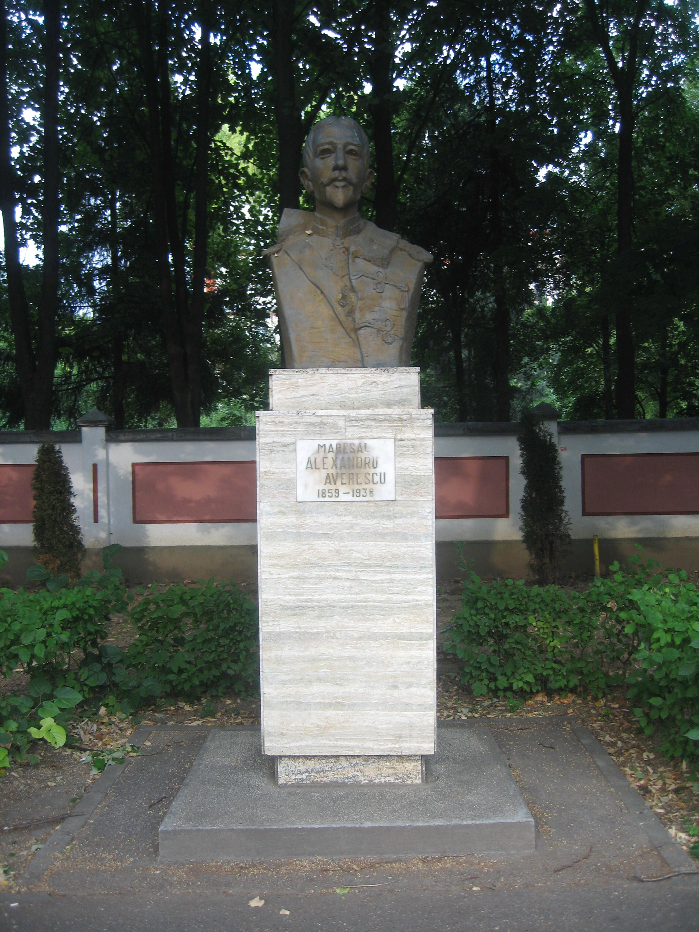 A statue bust of Alexander Averescu, in Iaşi, Moldavia, Romania.